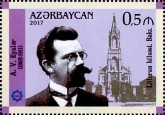 Union of Architects of Azerbaijan. N 1302 - 50 qapik. - There are pictured Adolf Eichler and Lutheran church in Baku on the stamps.